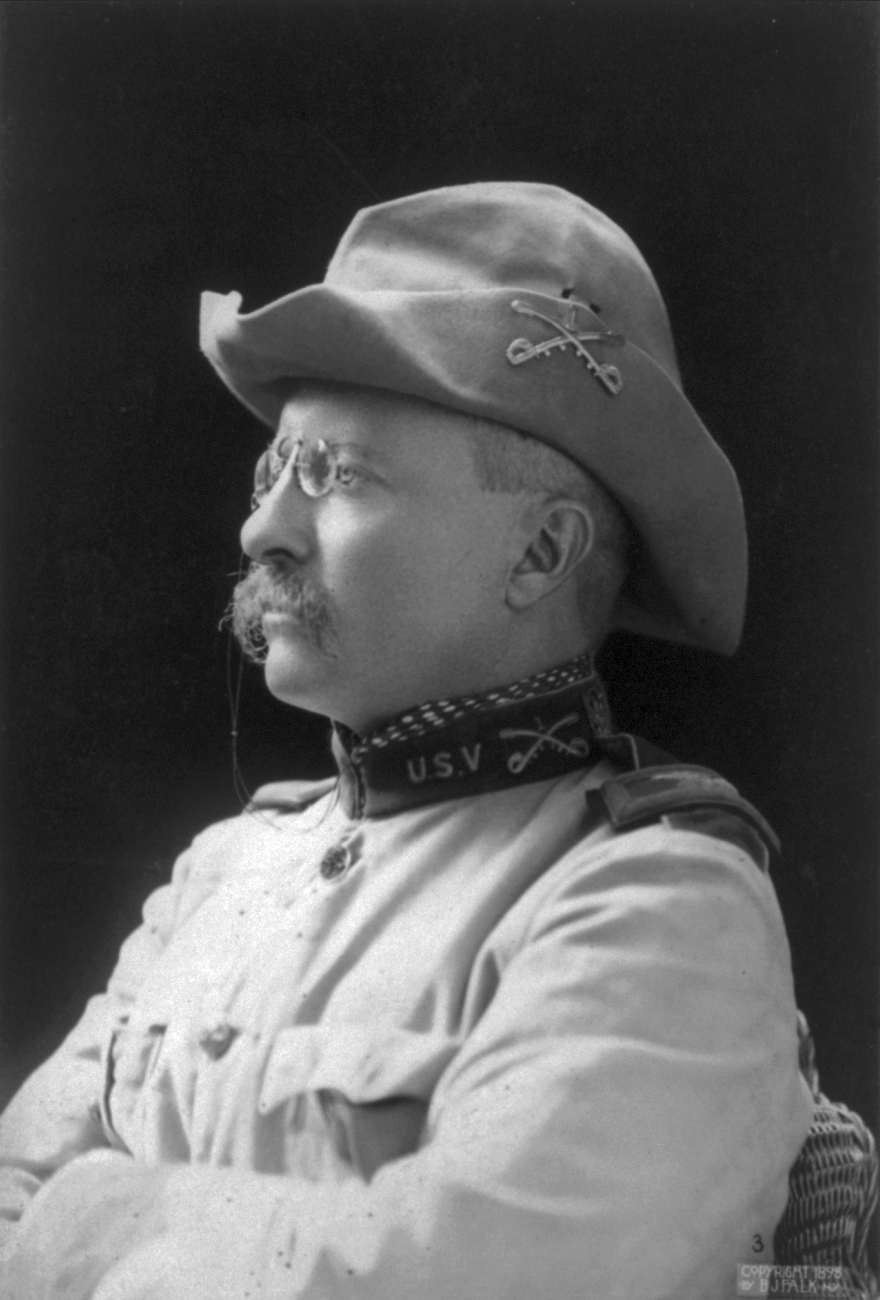 Col. Theodore Roosevelt (cropped and edited from original scan)